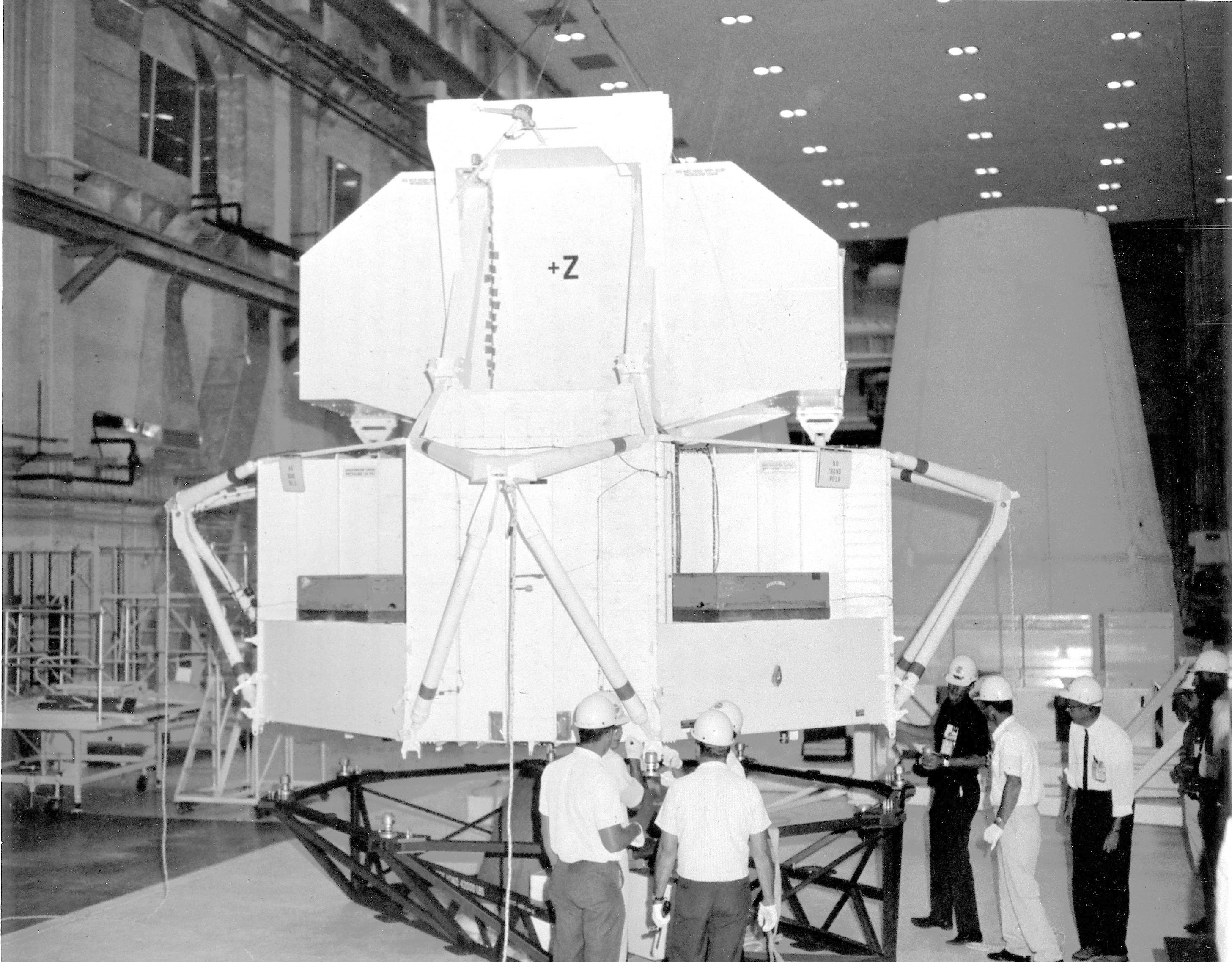 The Lunar Module Test Article [LTA] 2R, for the second Saturn V mission, is being moved from the low bay of the Manned Spacecraft Operations Building for mating with the spacecraft Lunar Module Adapter. The second Saturn V [502], except for a different lunar return trajectory, will be a repeat of the Apollo 4 unmanned Earth orbital flight of a high apogee for systems testing using several propulsion system burns and a heat shield test at lunar re-entry speed.